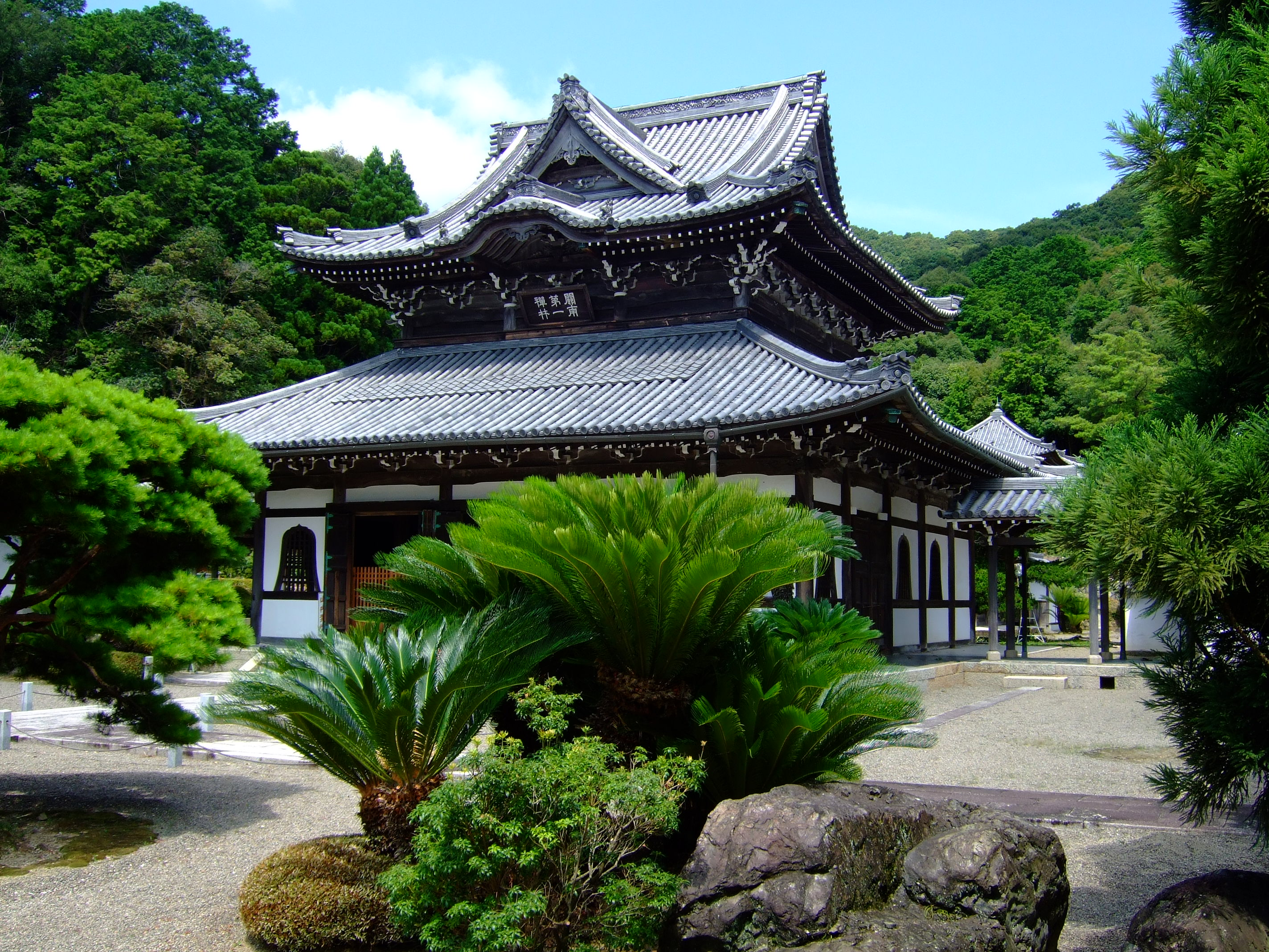 Main hall at Kōkoku-ji, Yūra-chō, Prefecture of Wakayama